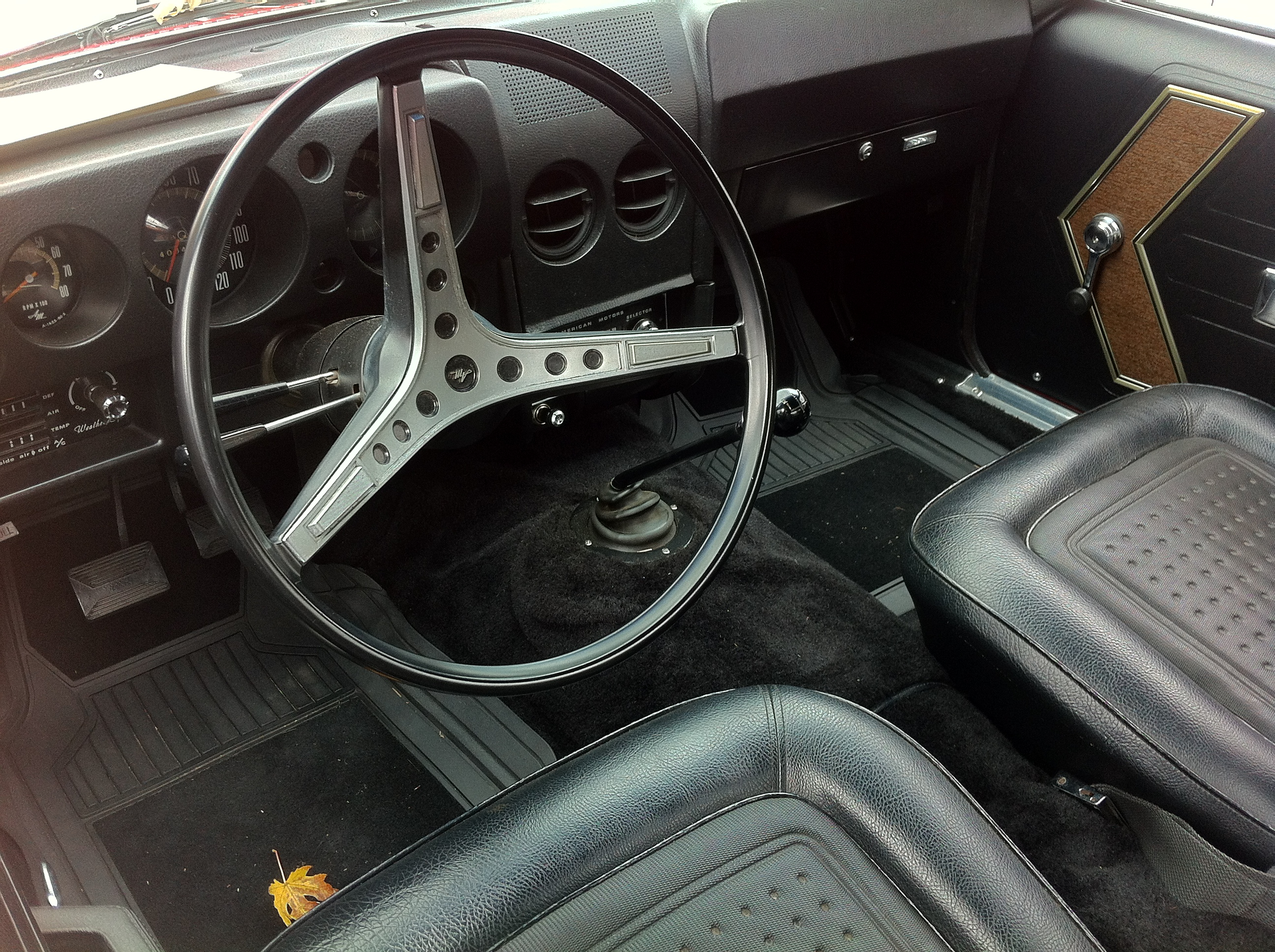 Interior driver's cockpit in a 1968 AMX by American Motors Corporation (AMC) a two-seat Grand Touring muscle-car coupe. This car has the 390 Go Pac - includes AMC's 6.4 L V8 and numerous other performance features. Picture taken at the 2014 Kensington Maryland Show.